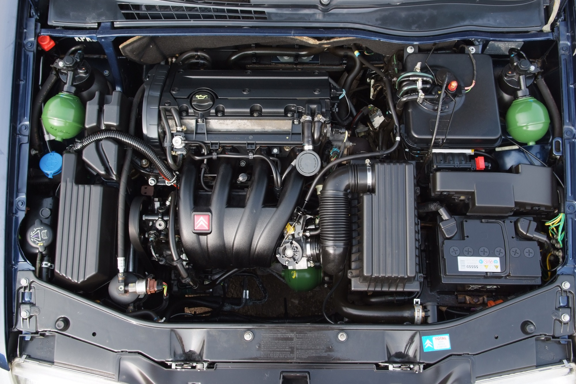 engine compartment of a Citroën Xantia Break with XU10 J4R (RFV) engine and automatic transmission